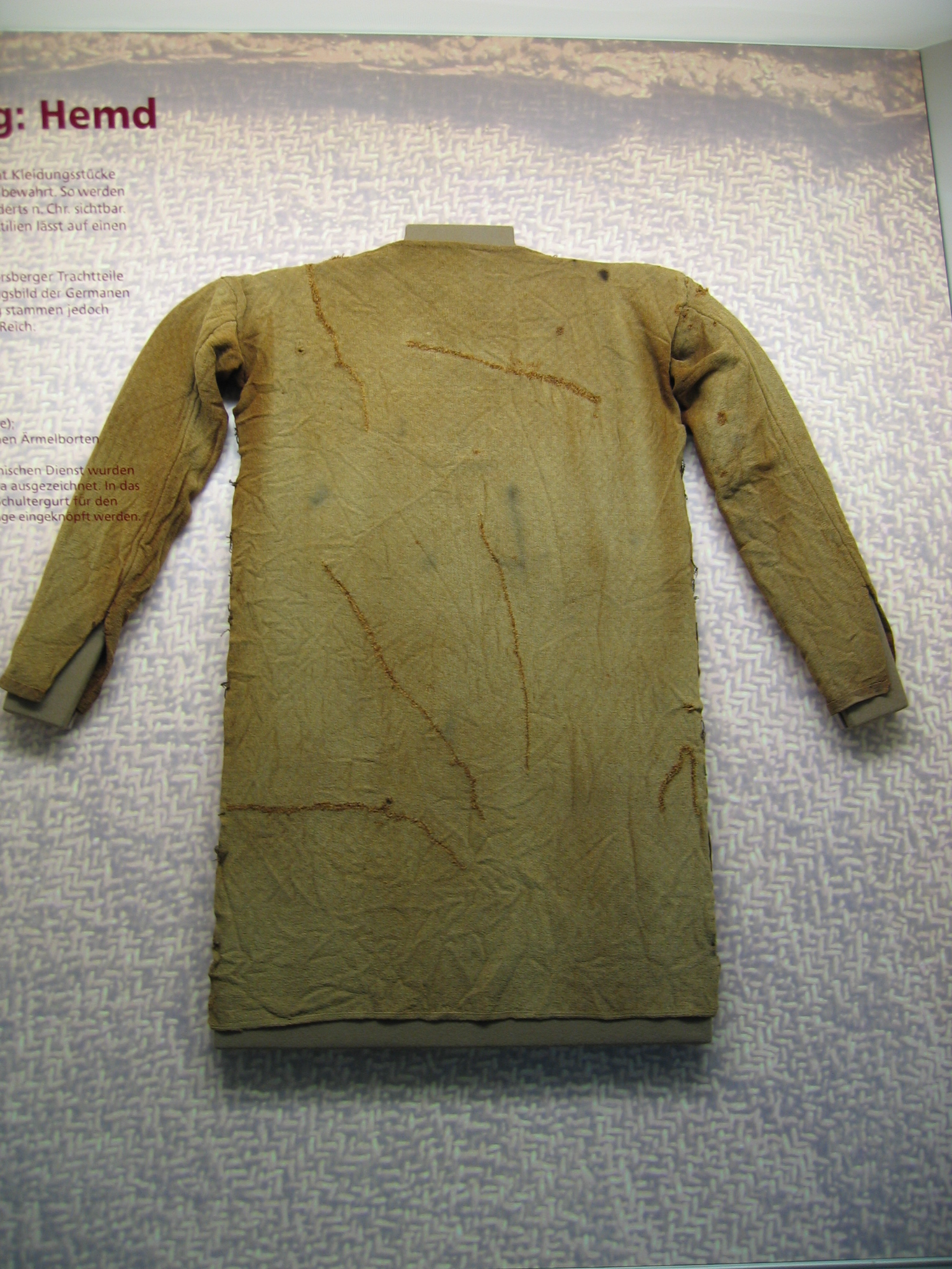 Back side of a kirtle from the Thorsberg Bog in Schleswig-Holstein, Germany, approx. 4th century.